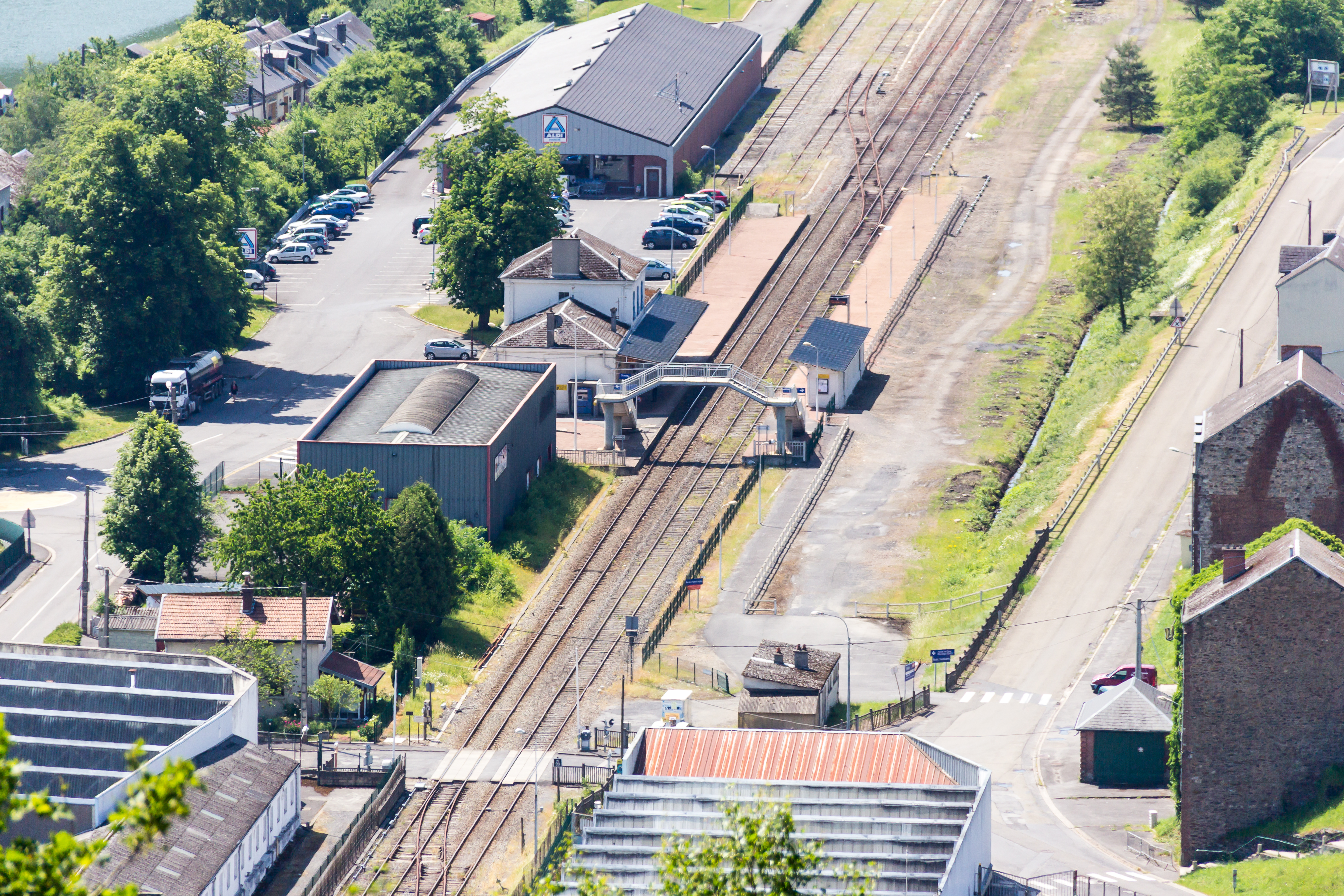 Gare de Fumay